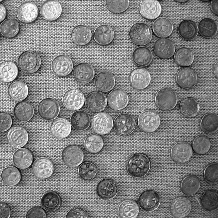 "Cross denars" (part of the Słuszków hoard)